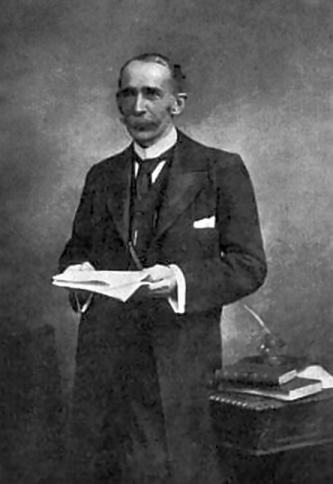 John Ambrose Fleming 1906